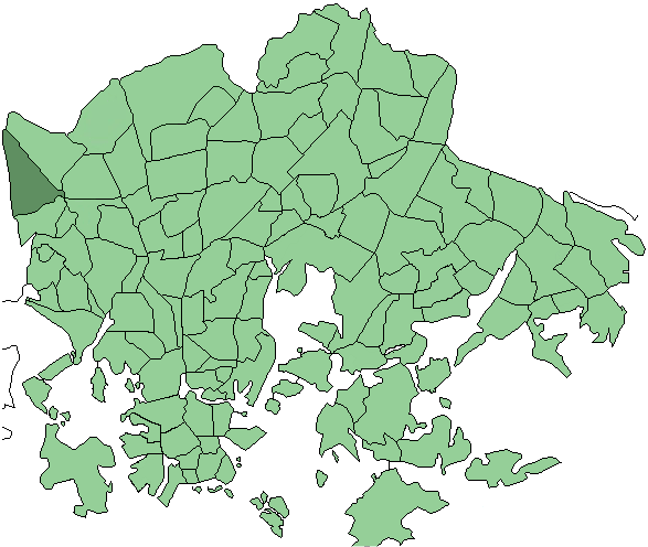 Districts of Helsinki, Konala highlighted (new version)